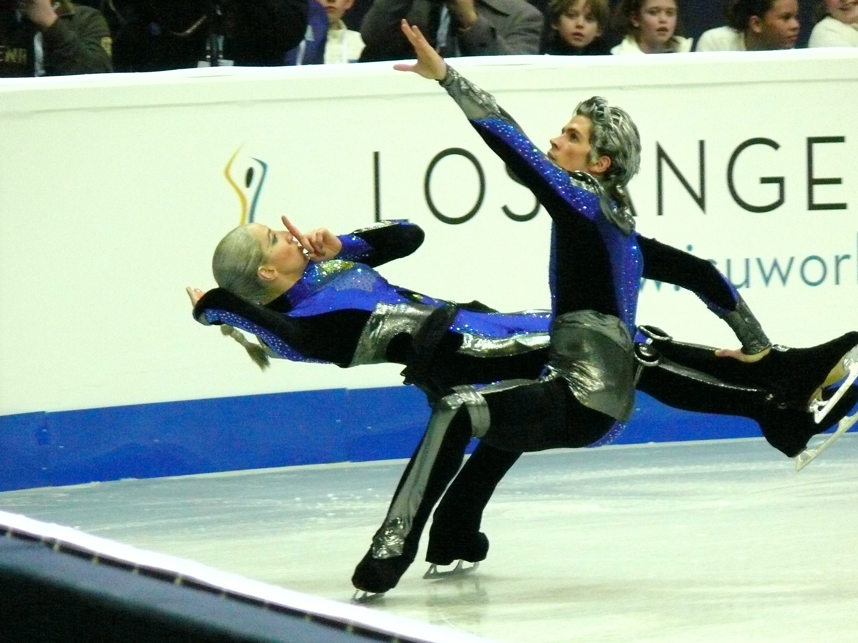 Sinead Kerr and John Kerr (GBR) at their free dance at the World Championships in Figure Skating 2008 in Gothenborg (SWE)